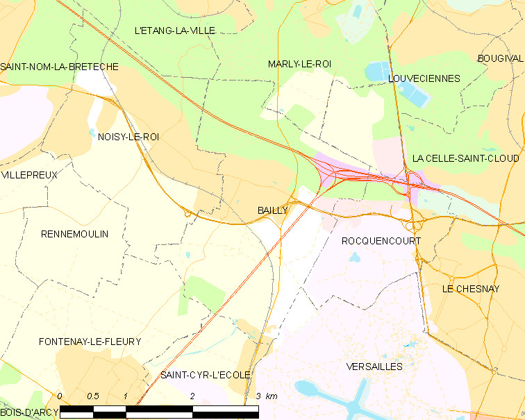 Map of French municipality Bailly